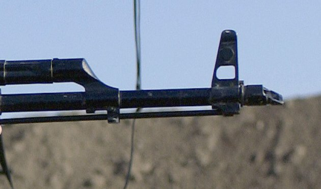 AK-47 assault rifle AKM version's muzzle ending with its distinctive slanting cut